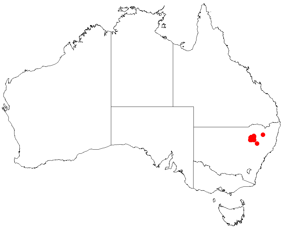 Macrozamia glaucophylla occurrence data downloaded from Australasian Virtual Herbarium using